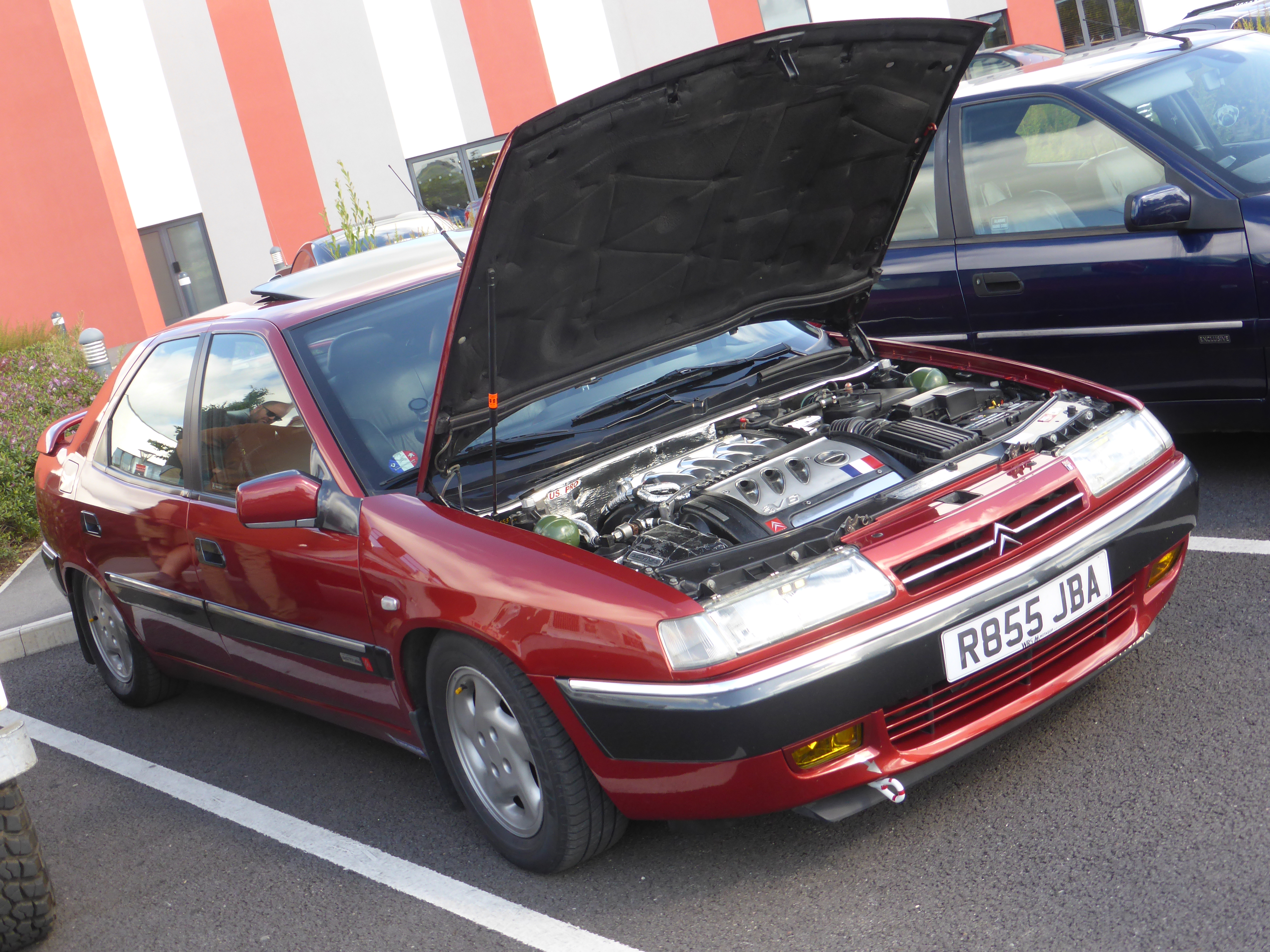 Haynes International Motor Museum Breakfast Club